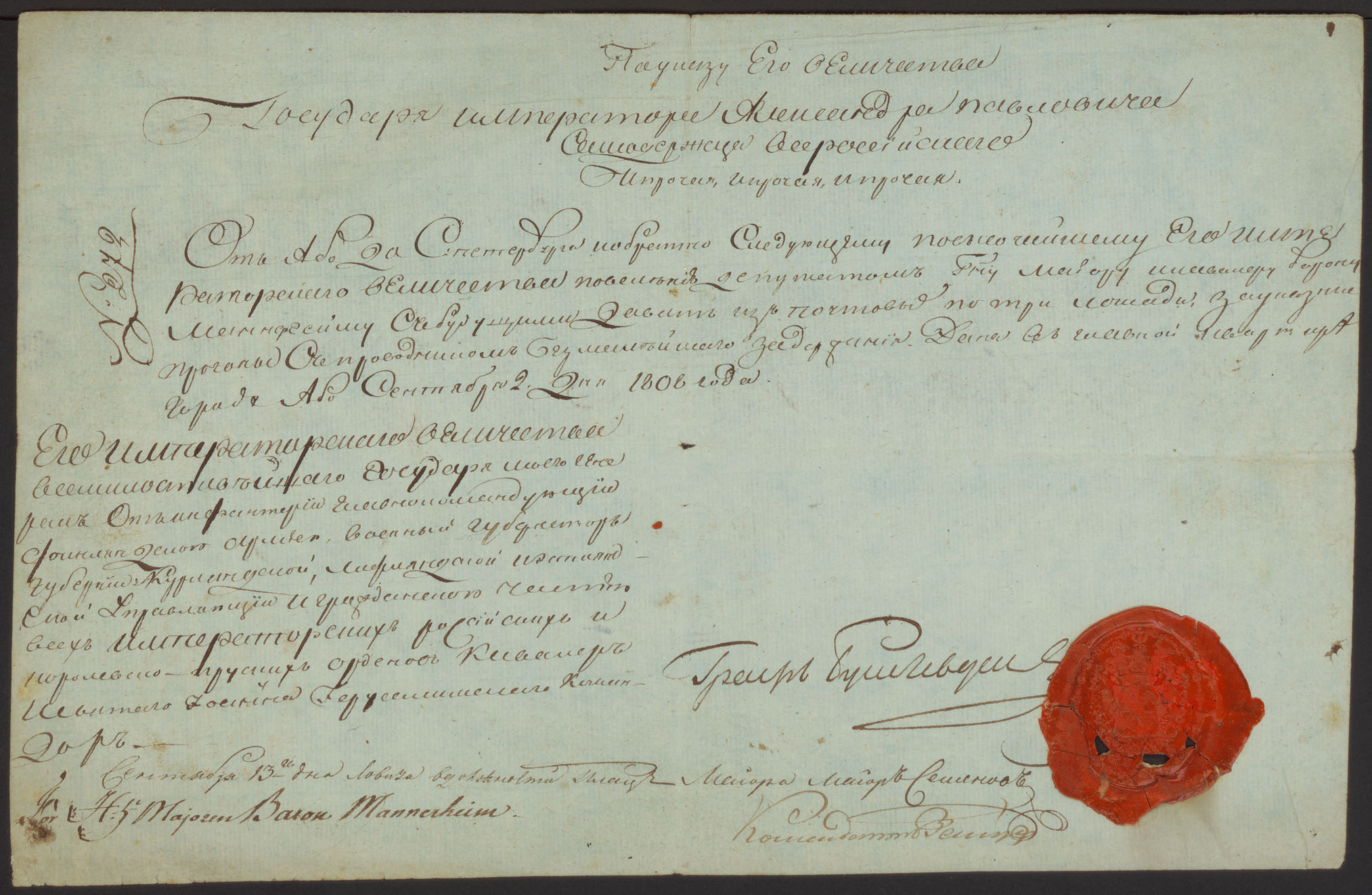 Passport commissioned by Count Friedrich Wilhelm von Buxhoeveden to the 1808 Finnish Embassy to the Russian Emperor